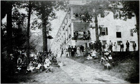 Seven Gables Hotel, Montvale Springs, Tennessee in 1884. Photograph from west end of the hotel.